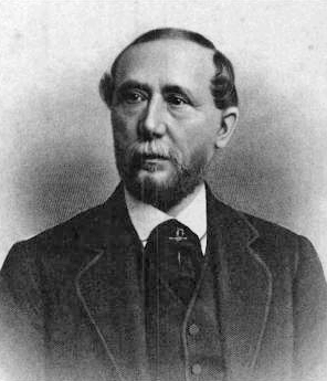 Engraving of John Bond Trevor